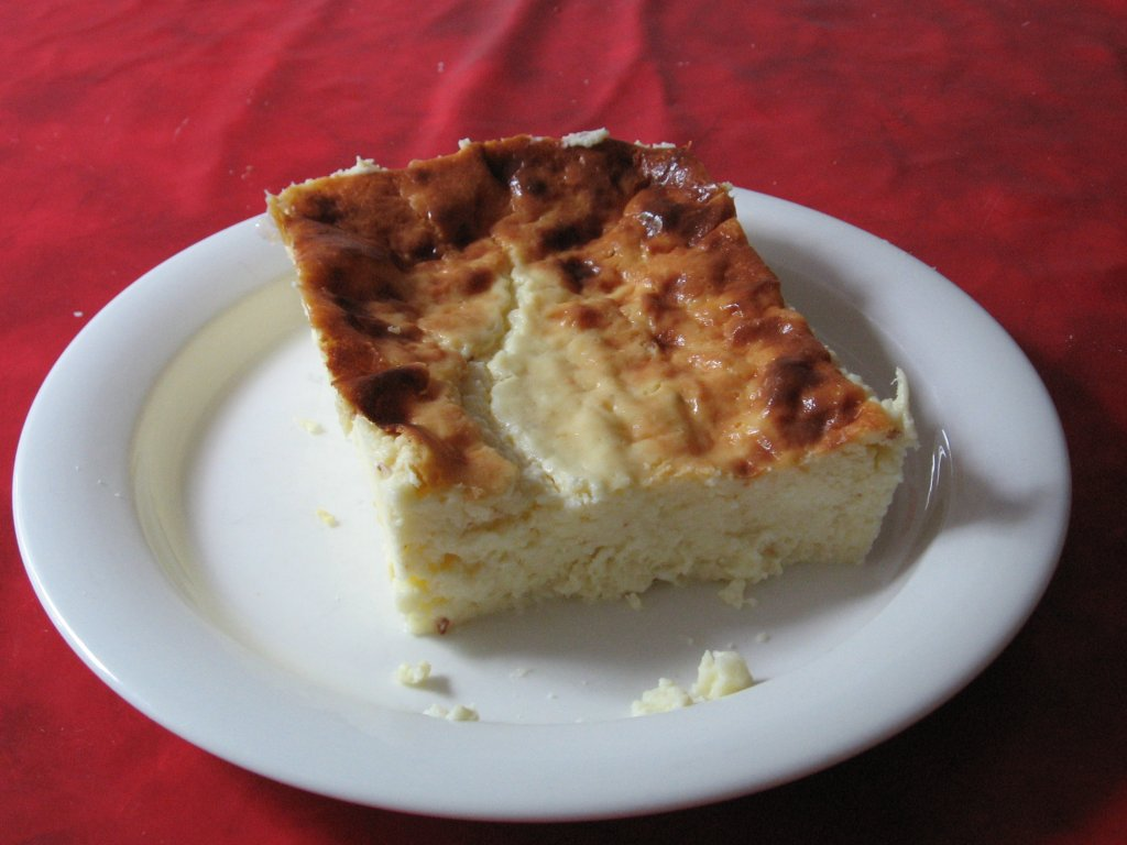 "Ostkaka" ("cheese cake"), traditional Swedish dish made of milk and cheese rennet.